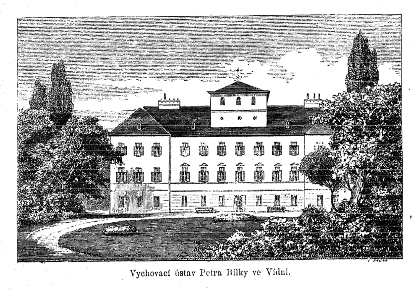 Educational institution in Josefstadt, a district of Vienna (Wien), Austria. It was founded by Mr. Herrmann and in the period 1850-76 was managed by Petr Bílka (1820-1881). See short description in Czech (published 13 May 1870).